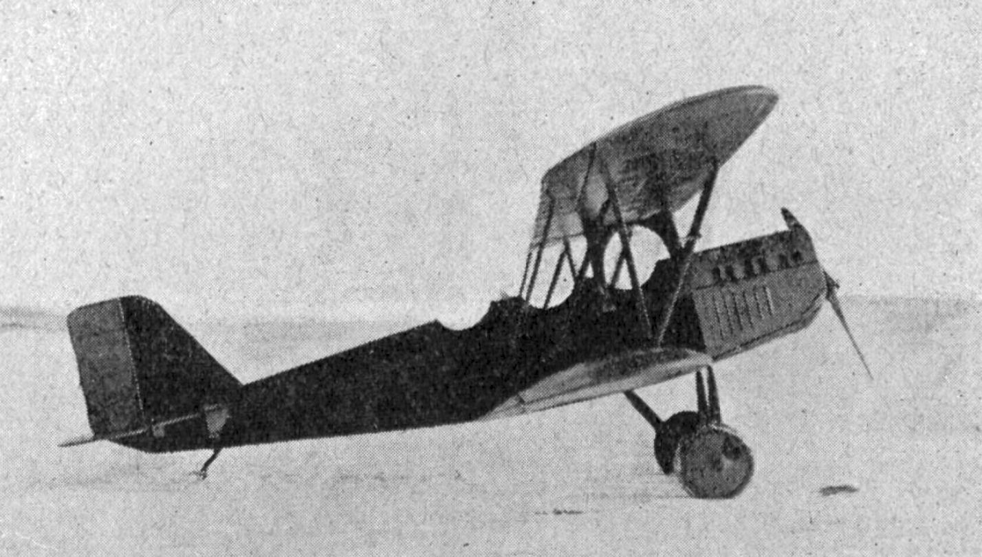 Heinkel HD 35 photo from L'Aéronautique November,1926